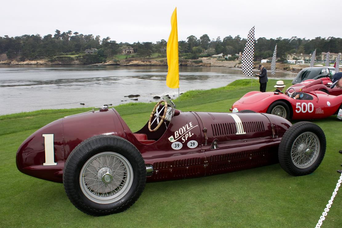 This 8TCF (chassis 3032), also known as the Boyle Special, is famous for its many visits to the Indianapolis 500 but was originally a Maserati team car. In 1939 and 1940 it raced at Indianapolis, where it won both times driven by Wilber Shaw; the following years it was forced to retire. The car visited Indianapolis again in 1946 and 1947, finishing third and fourth. It raced again in 1949 but failed to finish. The 8-cylinder Testa Fissa or fixed-head engine was designed by Ernesto Maserati. Built for the new Grand Prix 3-liter supercharged Formula, it had the speed to take on the mighty Mercedes, Auto Unions and Alfa Romeos but sadly not the reliability. The 3-liter supercharged engine featured independent fuel feed to the two groups of four cylinders and twin Roots superchargers. The 8TCF debuted at the 1938 Tripoli Grand Prix and performed well. Three cars were completed for the 1938 racing season. Photograph taken at the 2014 Pebble Beach Concours d'Elegance in Pebble Beach, California.